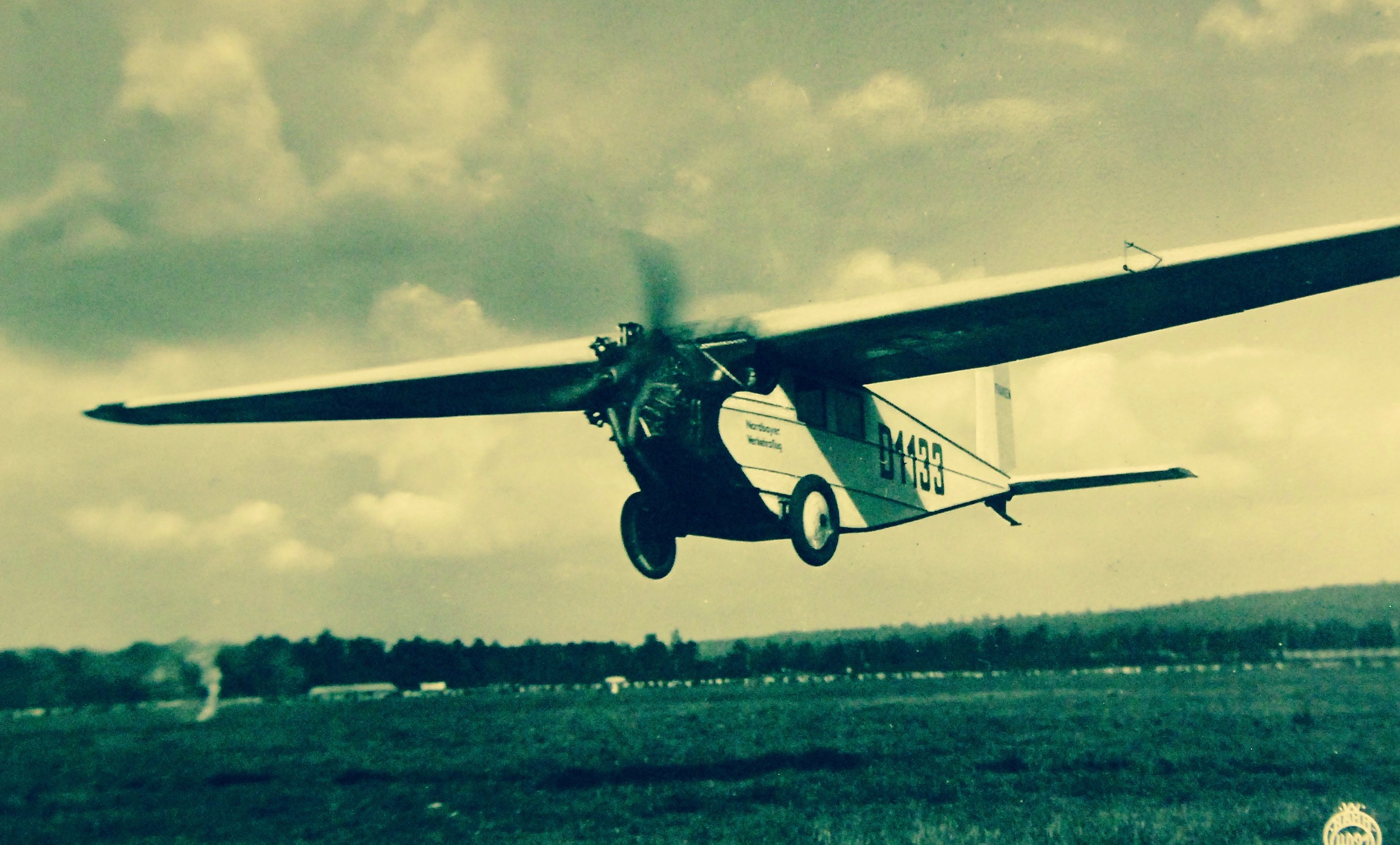 Lot-8127-8: German aircraft, Messerschmitt M18. Courtesy of the Library of Congress. (2016/10/28).